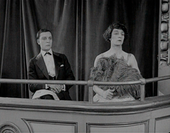 Shot from the movie theater in 1921.